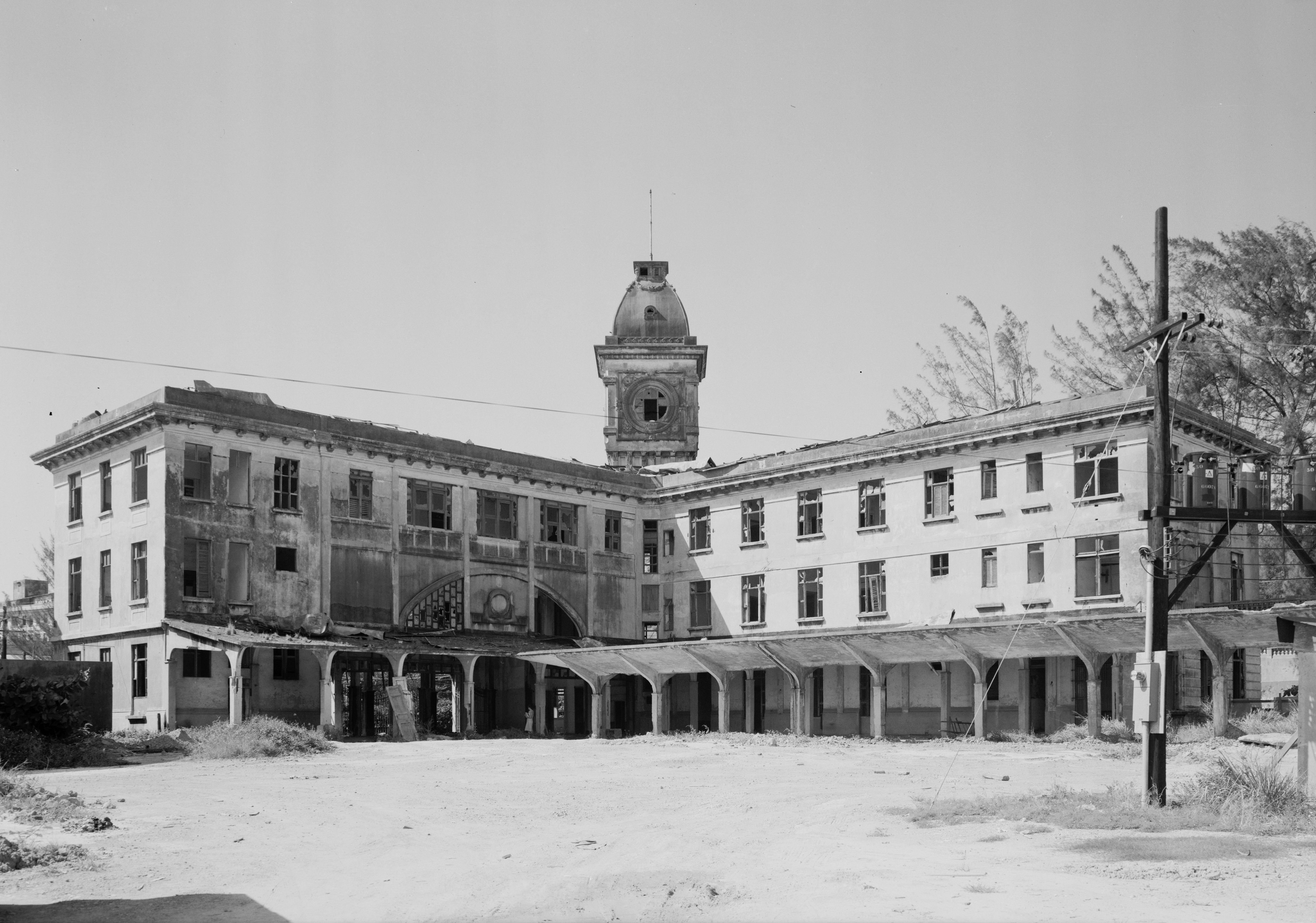 Former San Juan Railroad Terminal, Calle Commercio & Calle Harding, San Juan, San Juan County, PR - view from southeast.